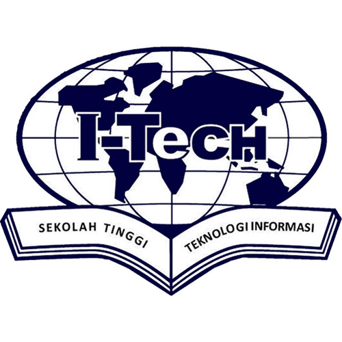 This logo from my campus